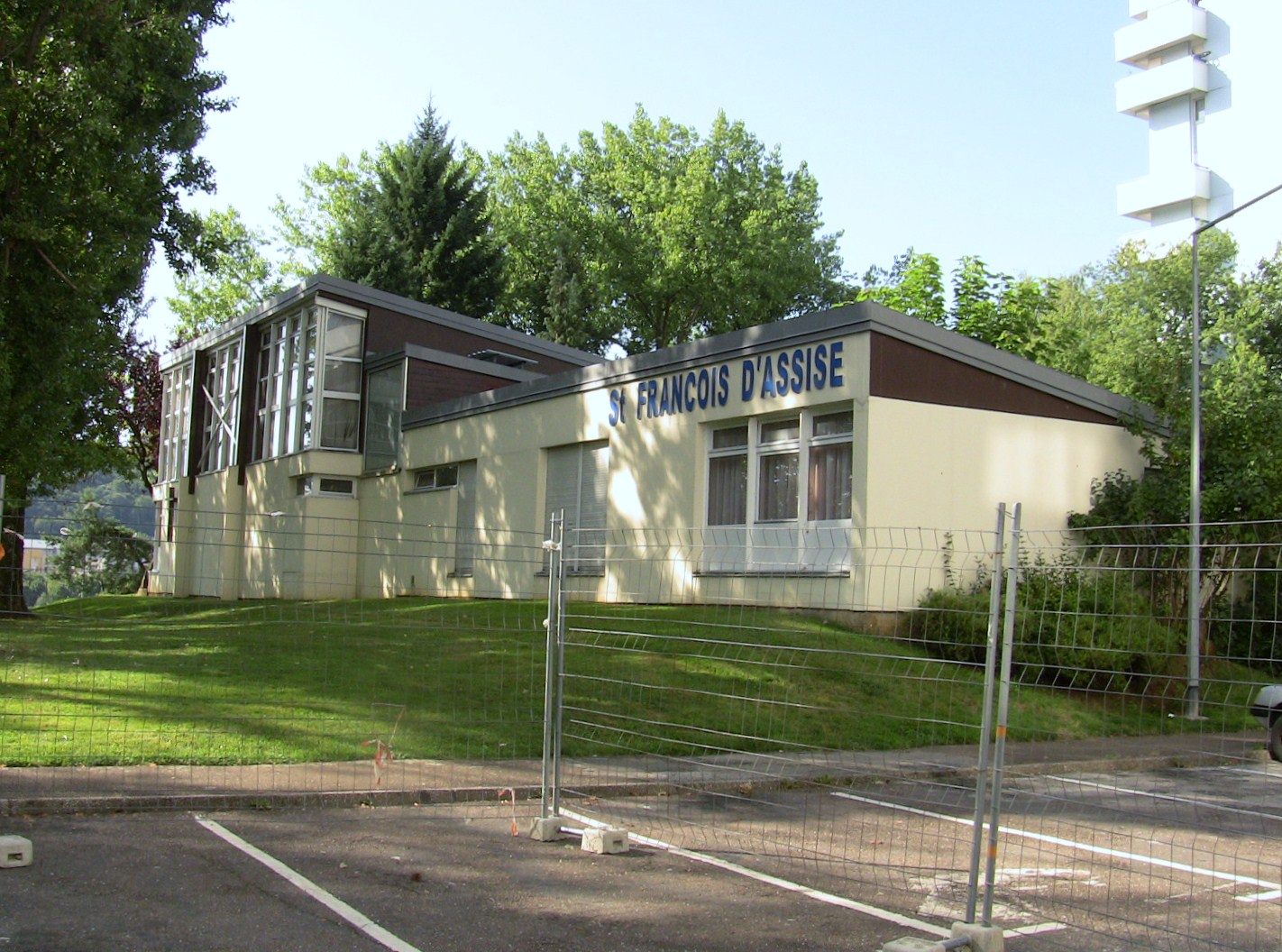 Saint-François church, located in the area of Planoise near Besançon (Doubs, France)